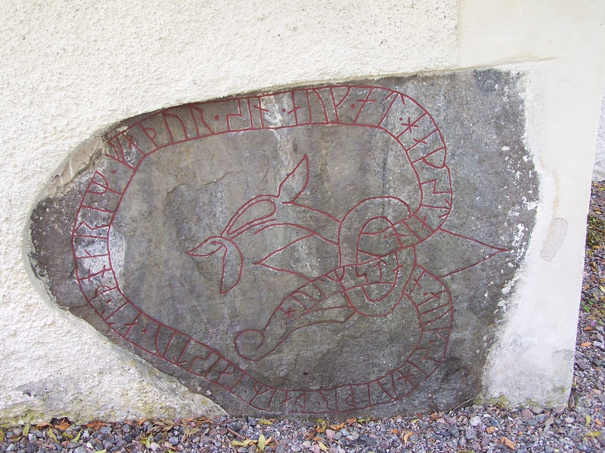 Runsten in the northern outer wall of Bogsta kyrka, Sweden